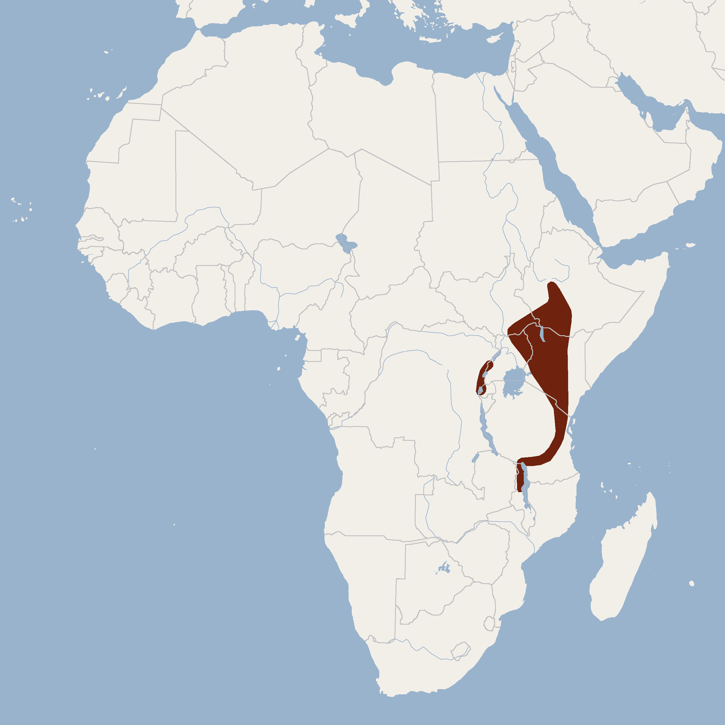 According to Happold & Happold, 2013